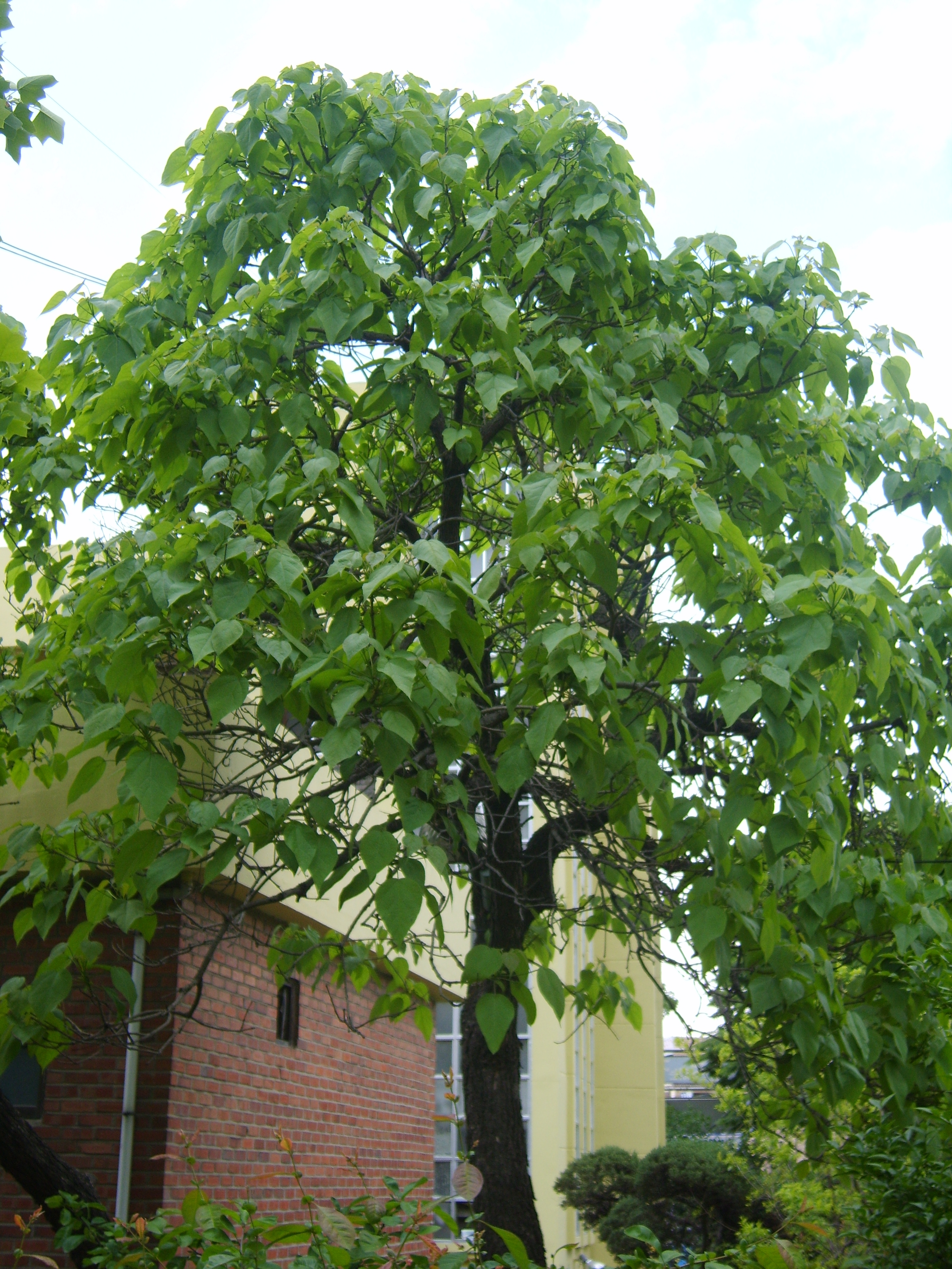 Catalpa bignonioides in Bupyung, Korea